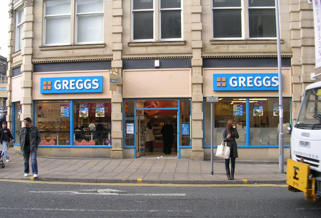 Greggs - Godwin Street